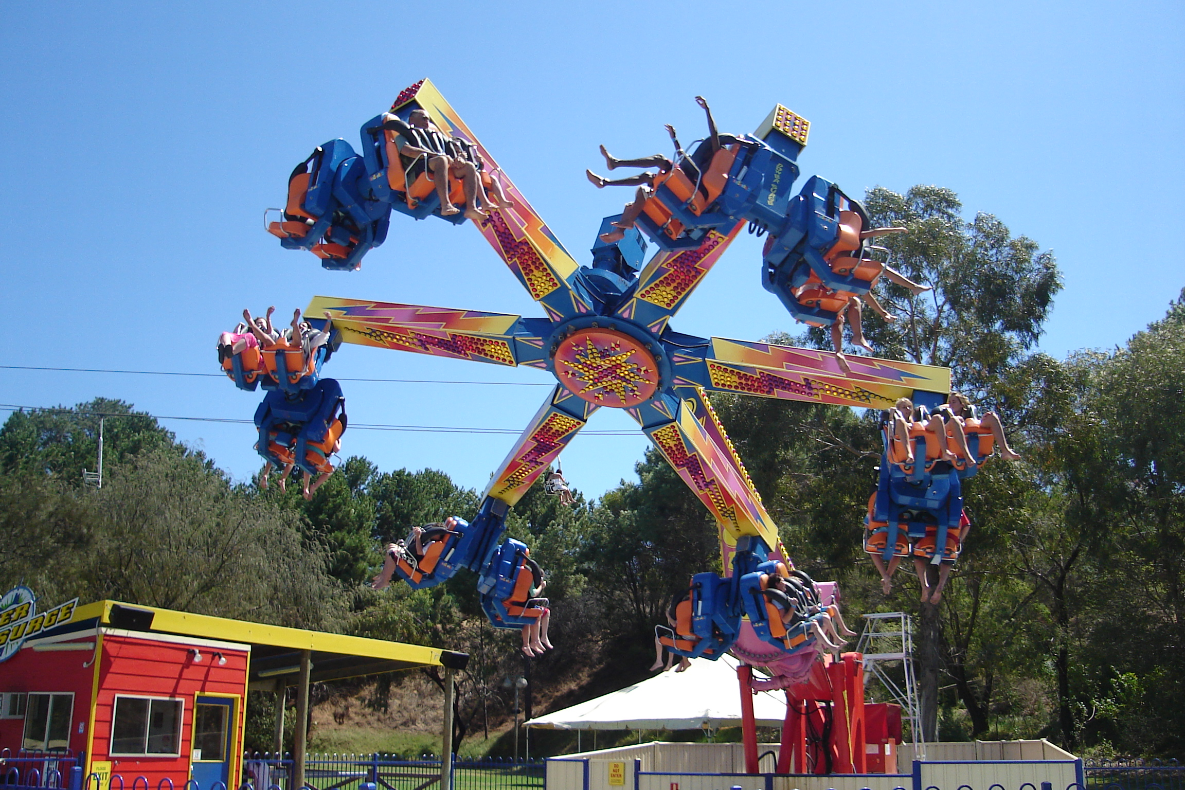 The power surge ride taken by me at Adventure World, Perth.